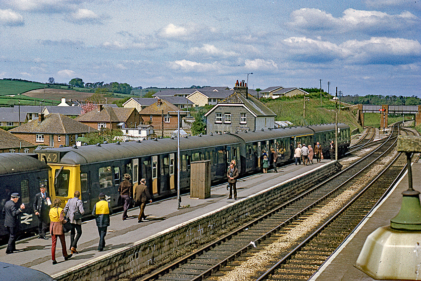 Last train on the Bridport branch at Maiden Newton, 117 007 and a class 121. Scanned from a Kodachrome 35mm slide.